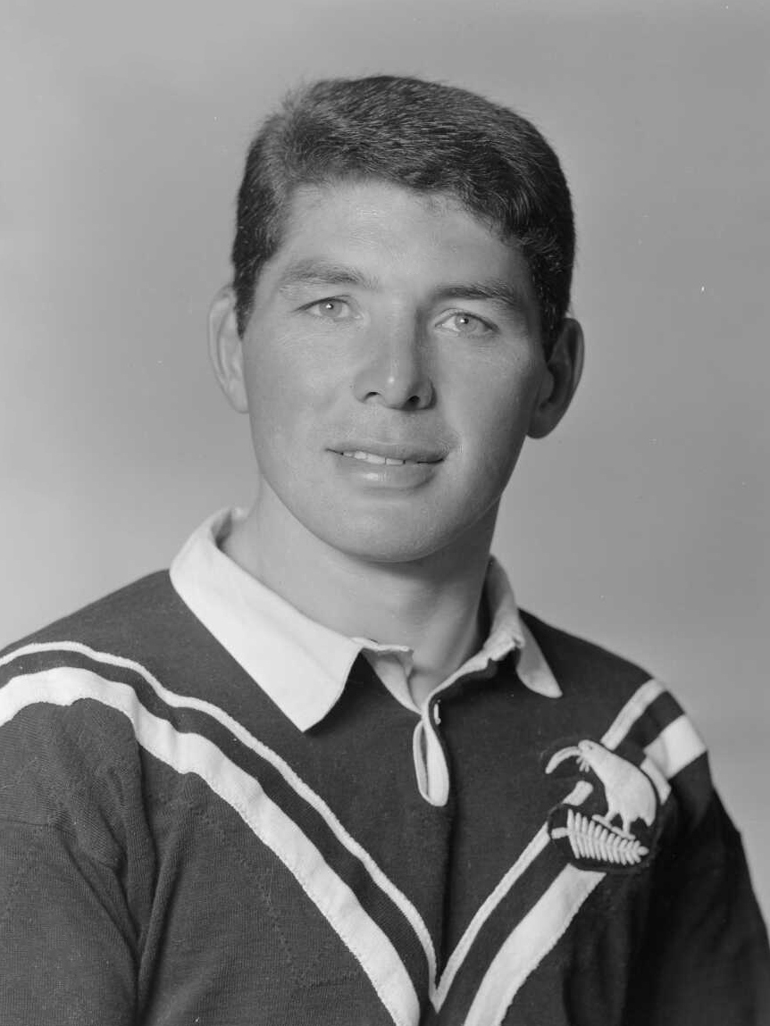 Head & shoulders studio portrait of Mr R. Farrell in rugby league jersey with kiwi & silver fern emblems [inscription on original negative enclosure: 'Reserve, New Zealand versus Great Britain Rugby League second Test 1966'], taken by Crown Studios Ltd of Wellington